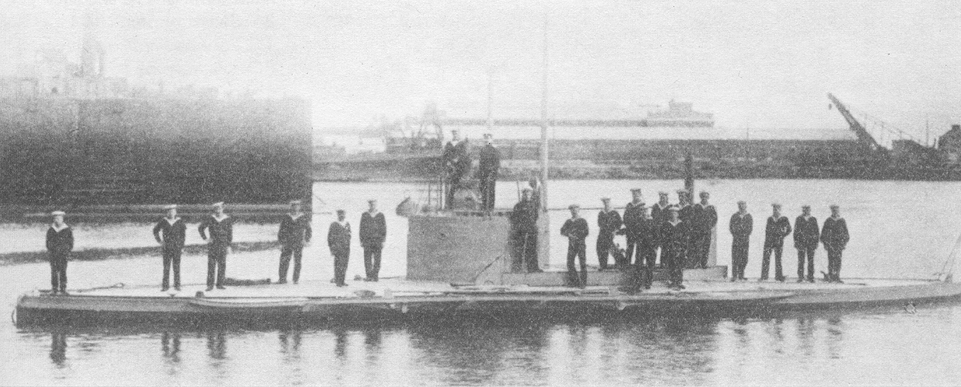 The Imeprialf Russian submarine «Sig».